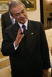 Abdullah Badawi, Prime Minister of Malaysia, at a visit to the White House in July 2004.